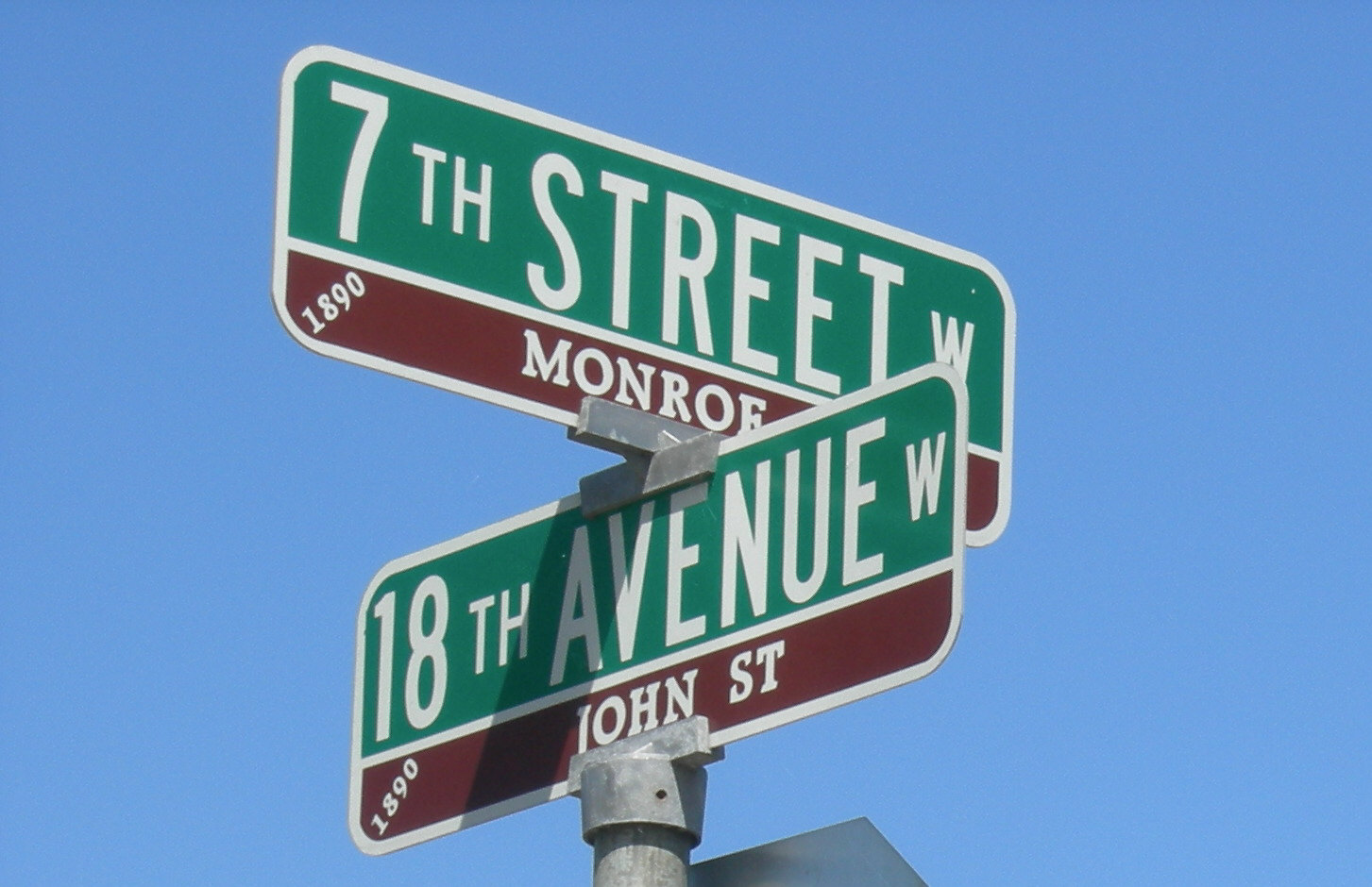 Street sign in the West of Market neighborhood of Kirkland, Washington, showing both the old names of streets in the original Kirkland plat and the current names.